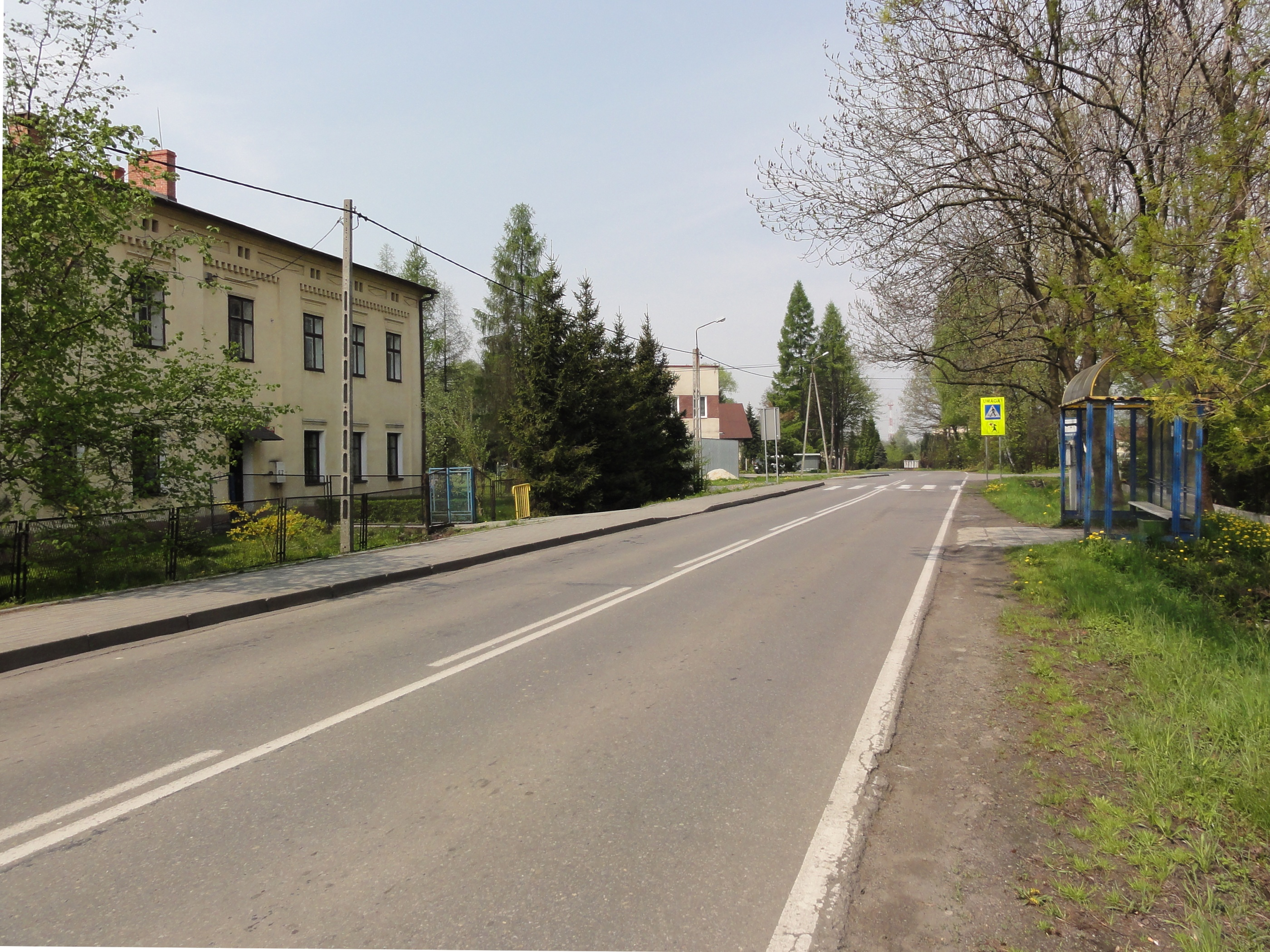 Zabłocie centre